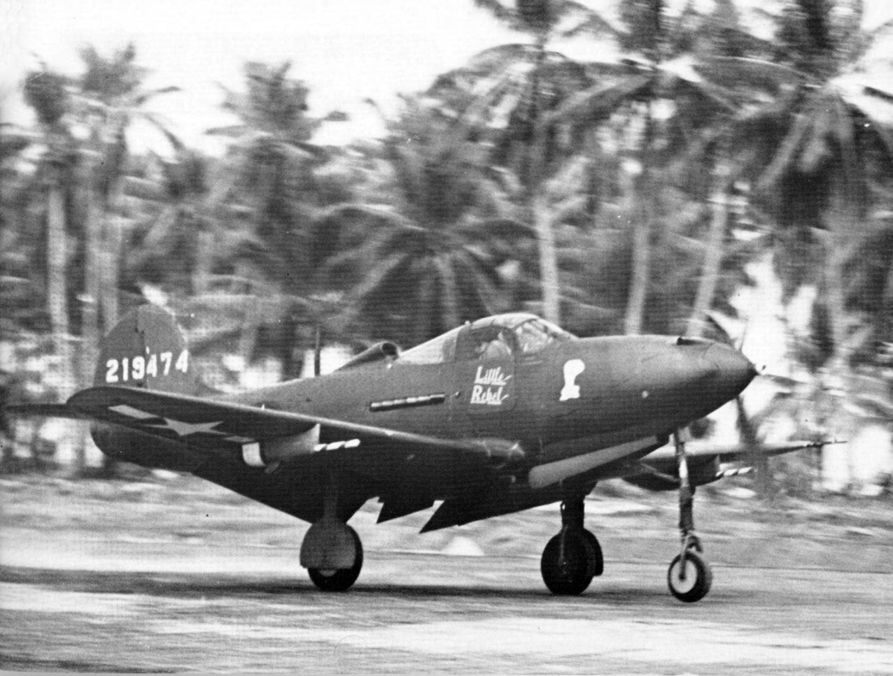 A U.S. Army Air Forces Bell P-39Q-1-BE Airacobra (s/n 42-19474) of the 46th Fighter Squadron, 15th Fighter Group, taking off from Makin Island in the Gilberts, 13 December 1943, just weeks after U.S. Army forces had seized the island.